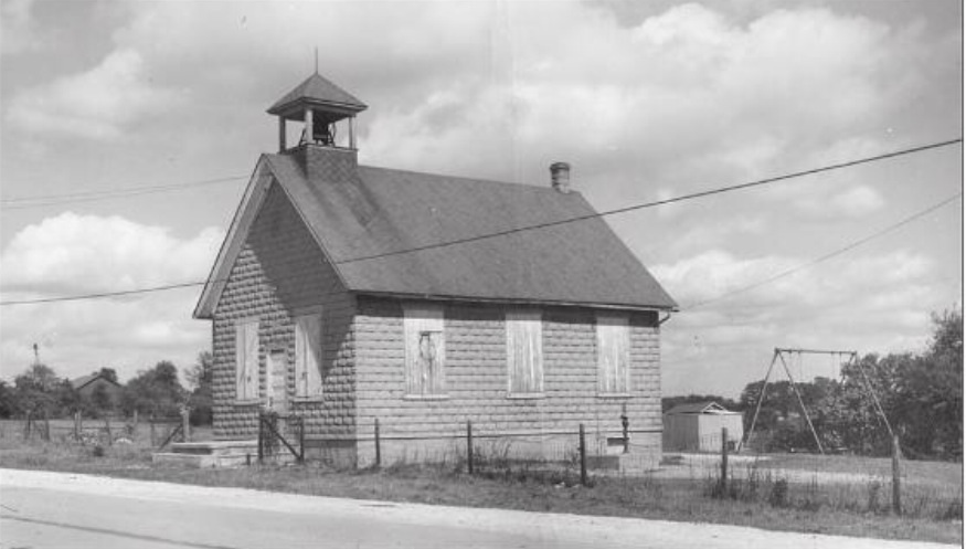 The original school from 1862